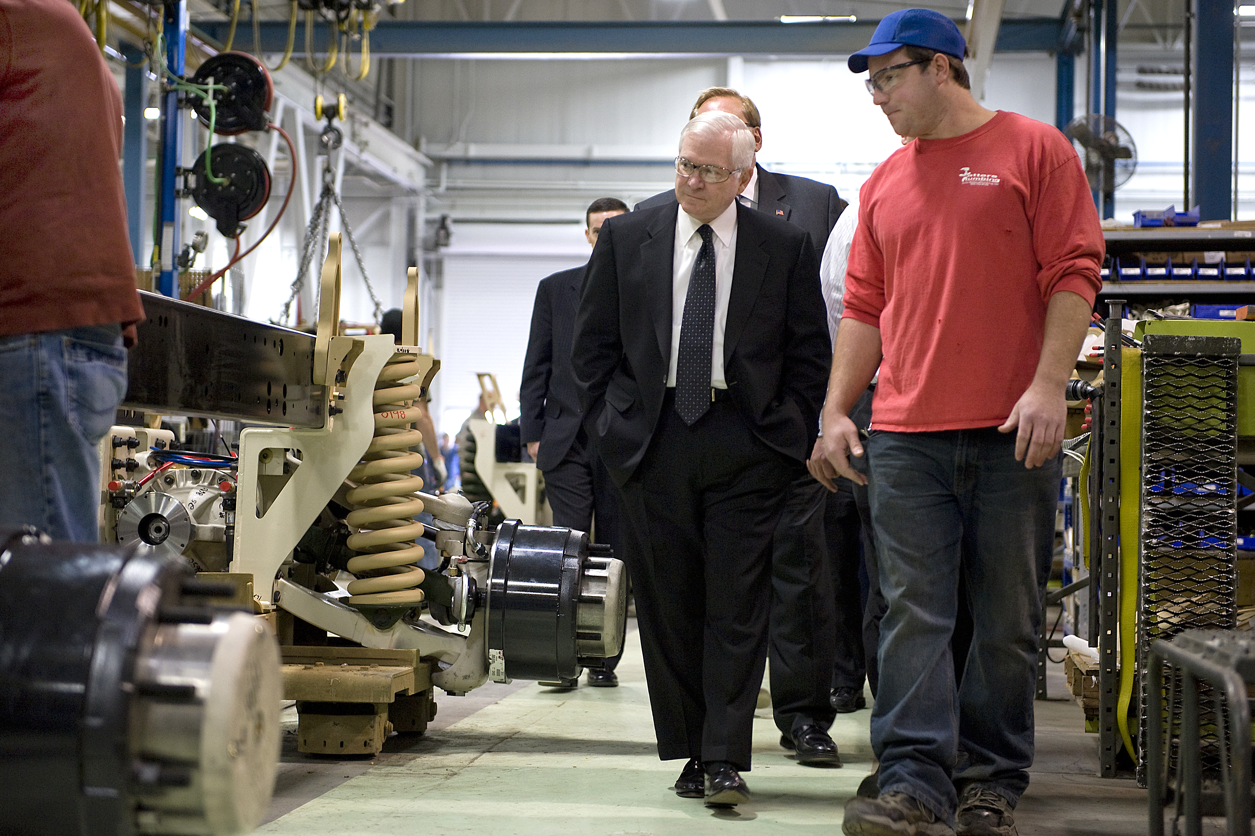 Defense Secretary Robert M. Gates tours the M-ATV production facility, Oshkosh, Wis., Nov. 12, 2009. DoD photo by Cherie Cullen